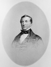 William Wright (politician)